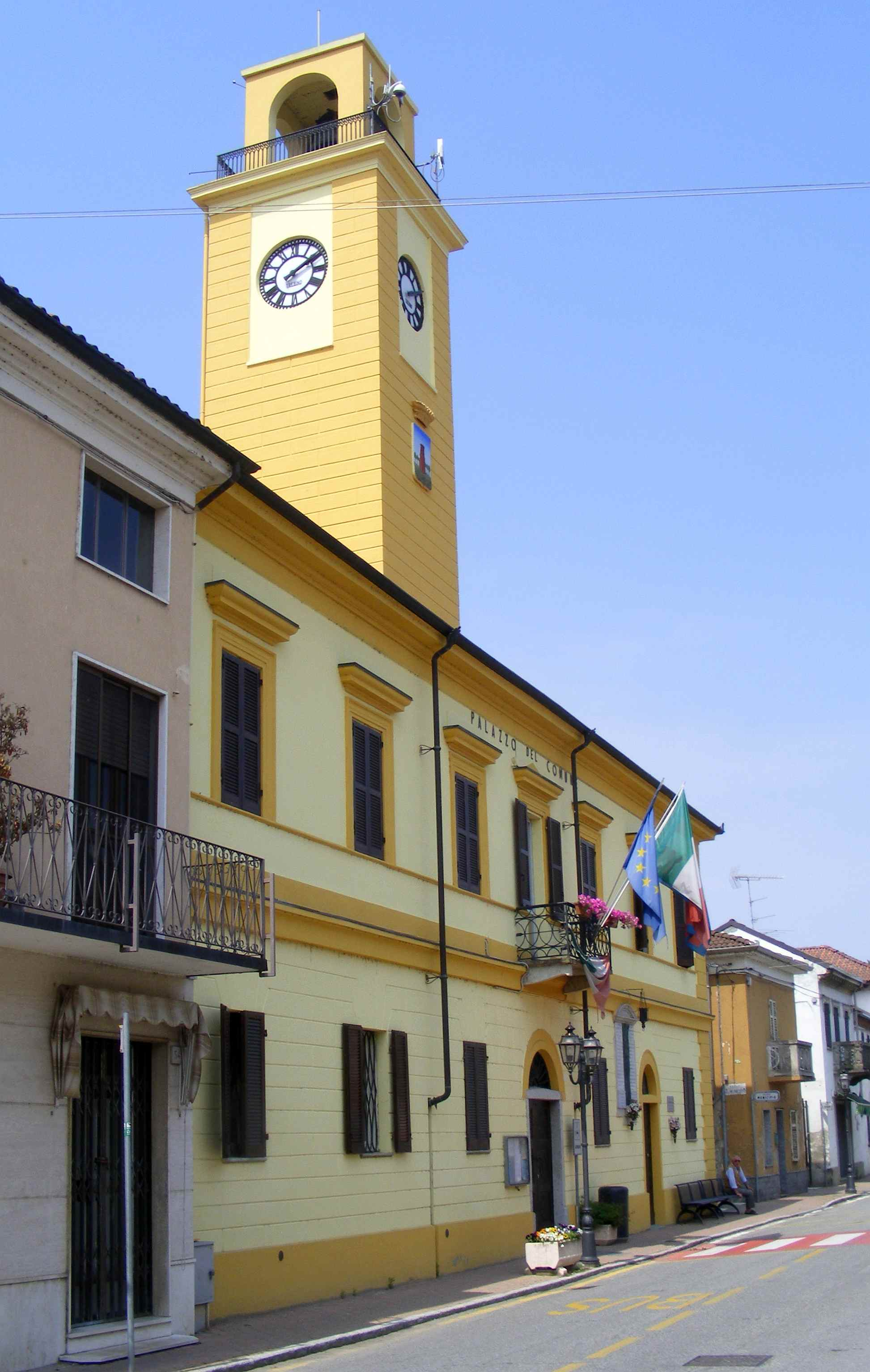 Costanzana (VC, Italy): town hall